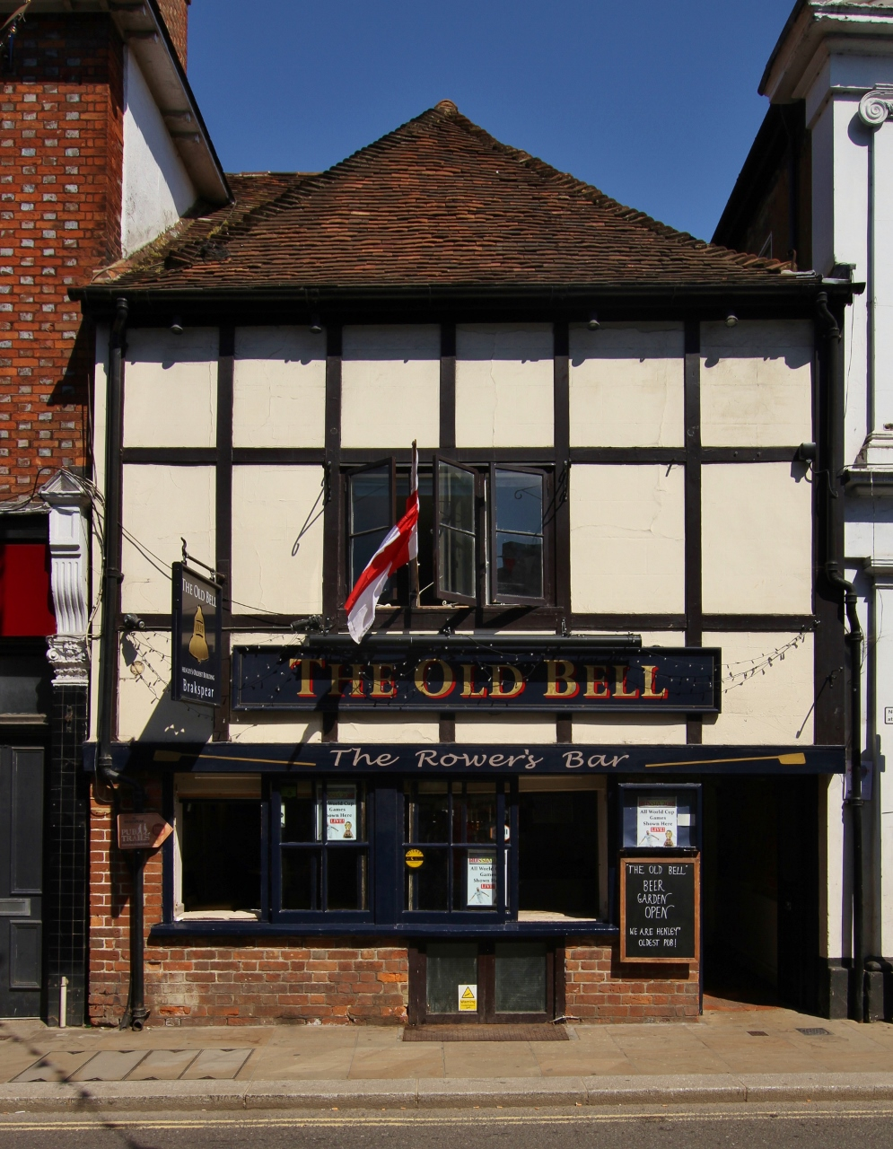 The Old Bell, 20 Bell Street, Henley-on-Thames, Oxfordshire, seen from the west